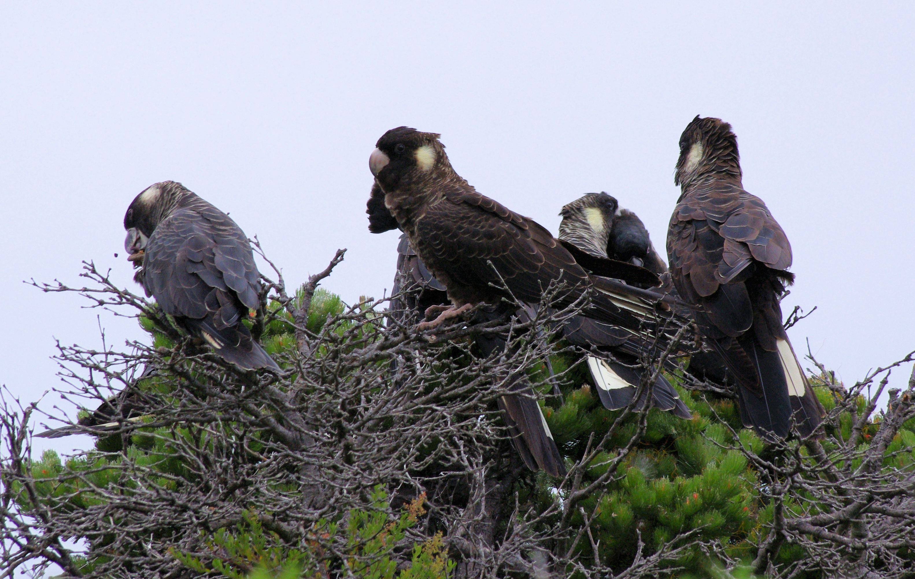 A Short-billed Black Cockatoo (also known as Carnaby's Black Cockatoo) in Albany, Western Australia, Australia.